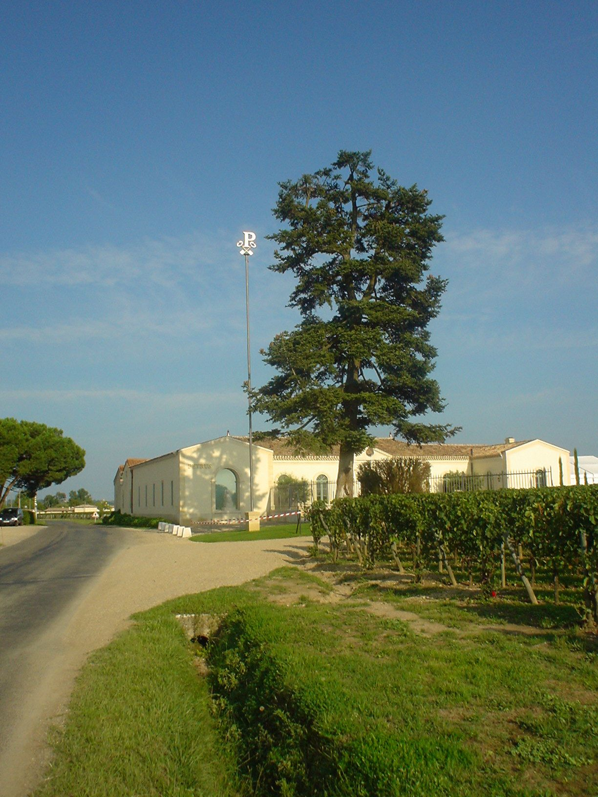 Chateau Petrus during Harvest